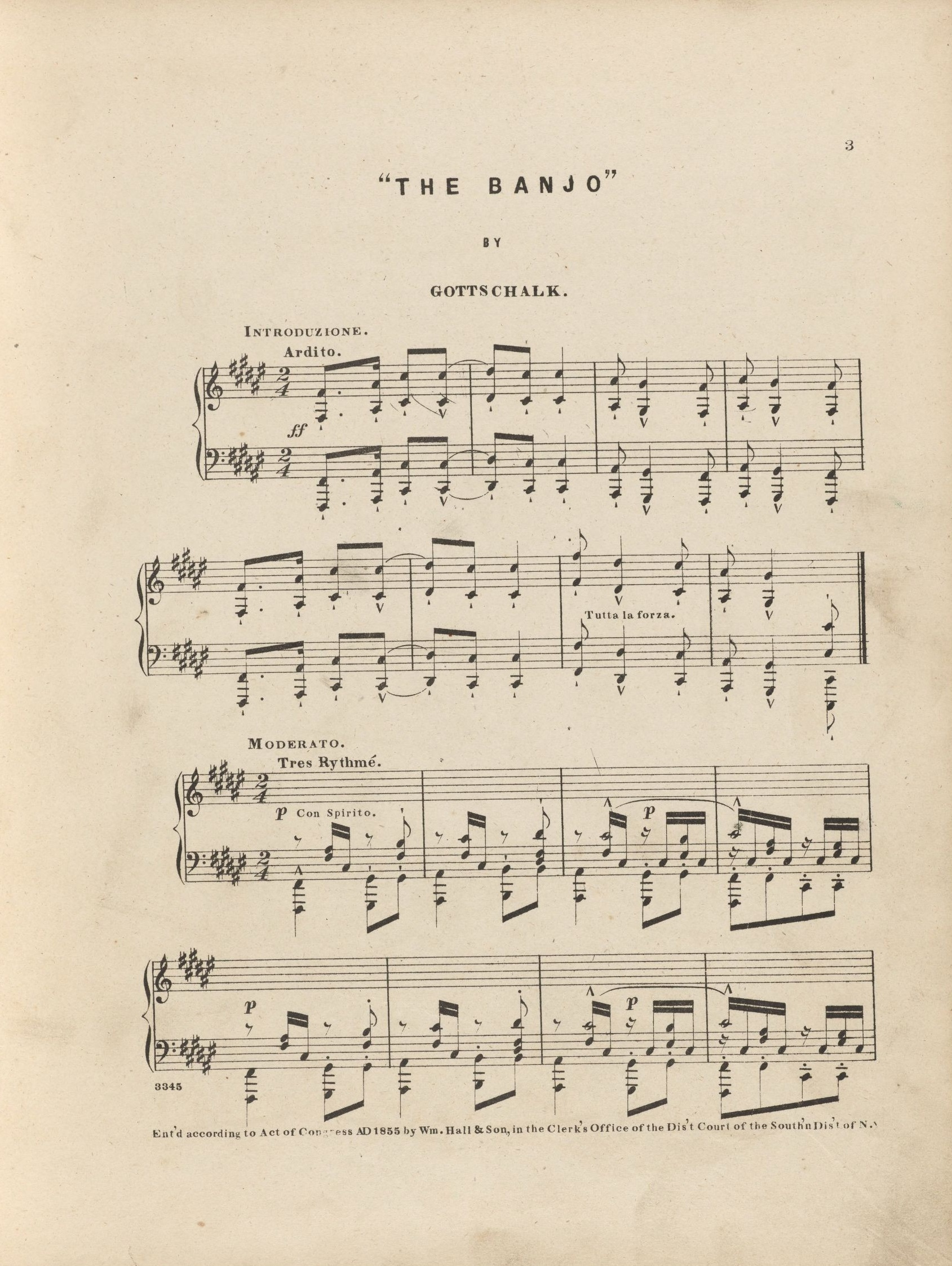 Sheet music for The Banjo; an American sketch; grotesque fantasie,1855, by Louis Moreau Gottschalk (1829-1869). Houghton *62-2162, Houghton Library, Harvard University